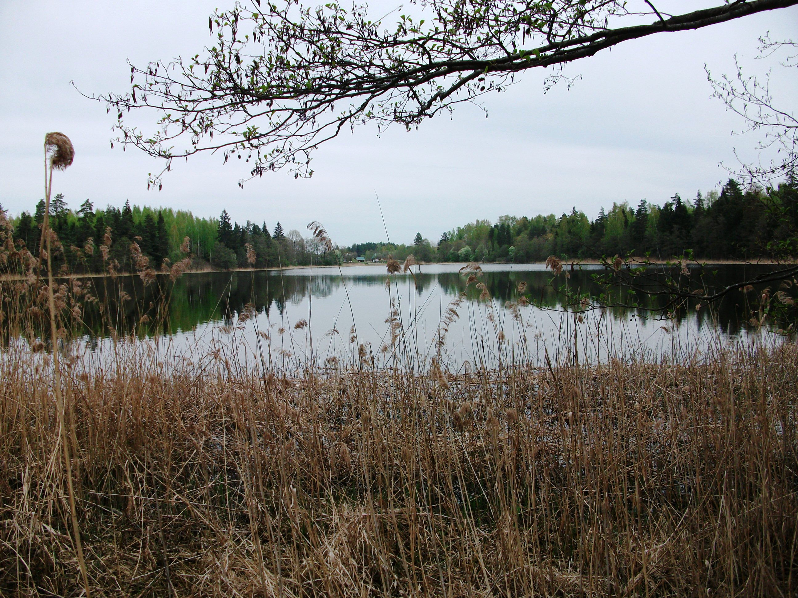 Zalauskaye Lake, Astraviec district, Belarus